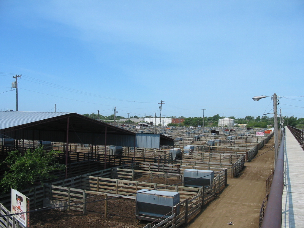 Stockyards City Historic District, An irregular pattern along Agnew and Exchange Aves. Oklahoma City